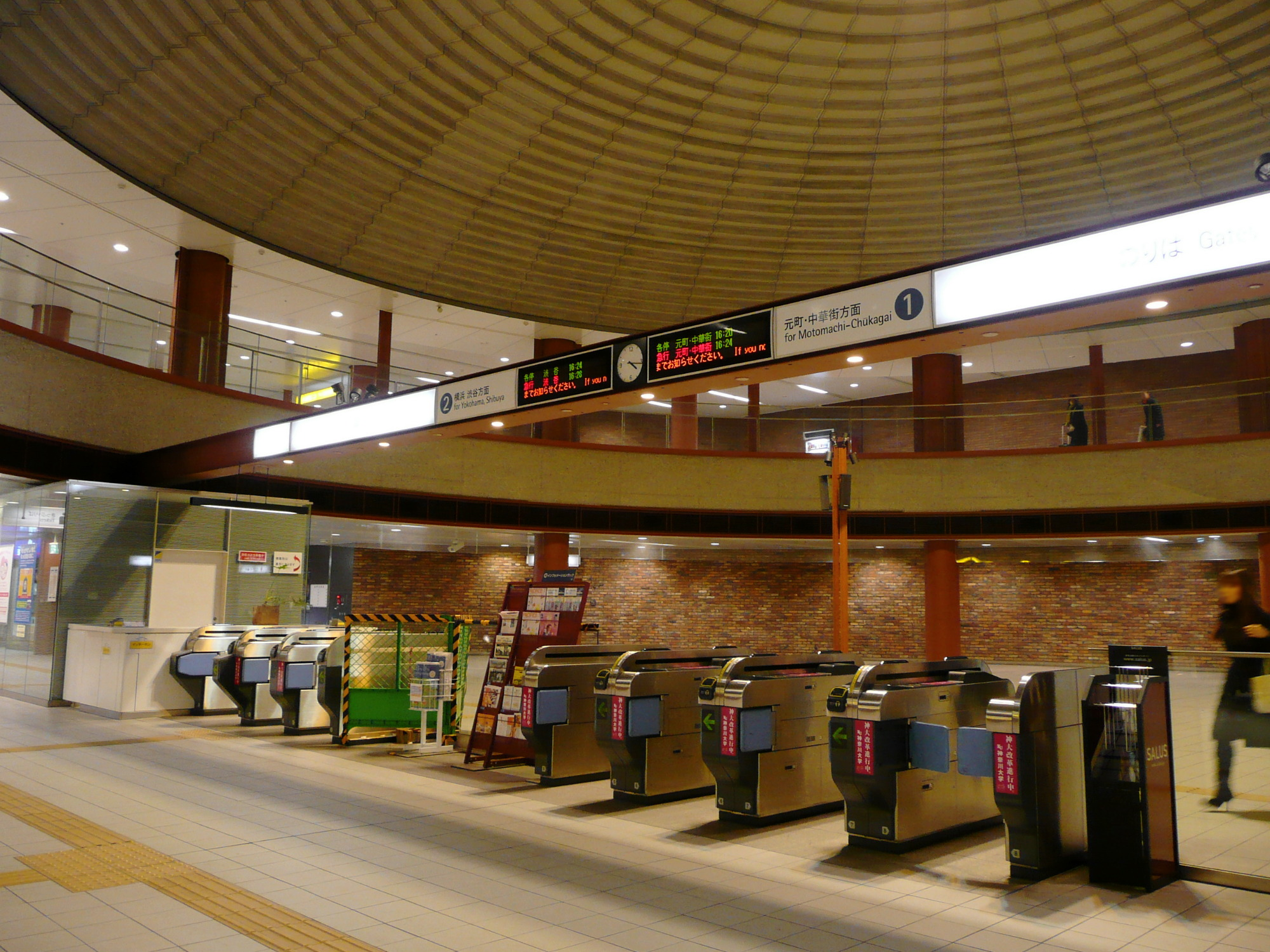 Yokohama Minatomirai Railway,BaShamichi Station gate. / みなとみらい線馬車道駅改札口